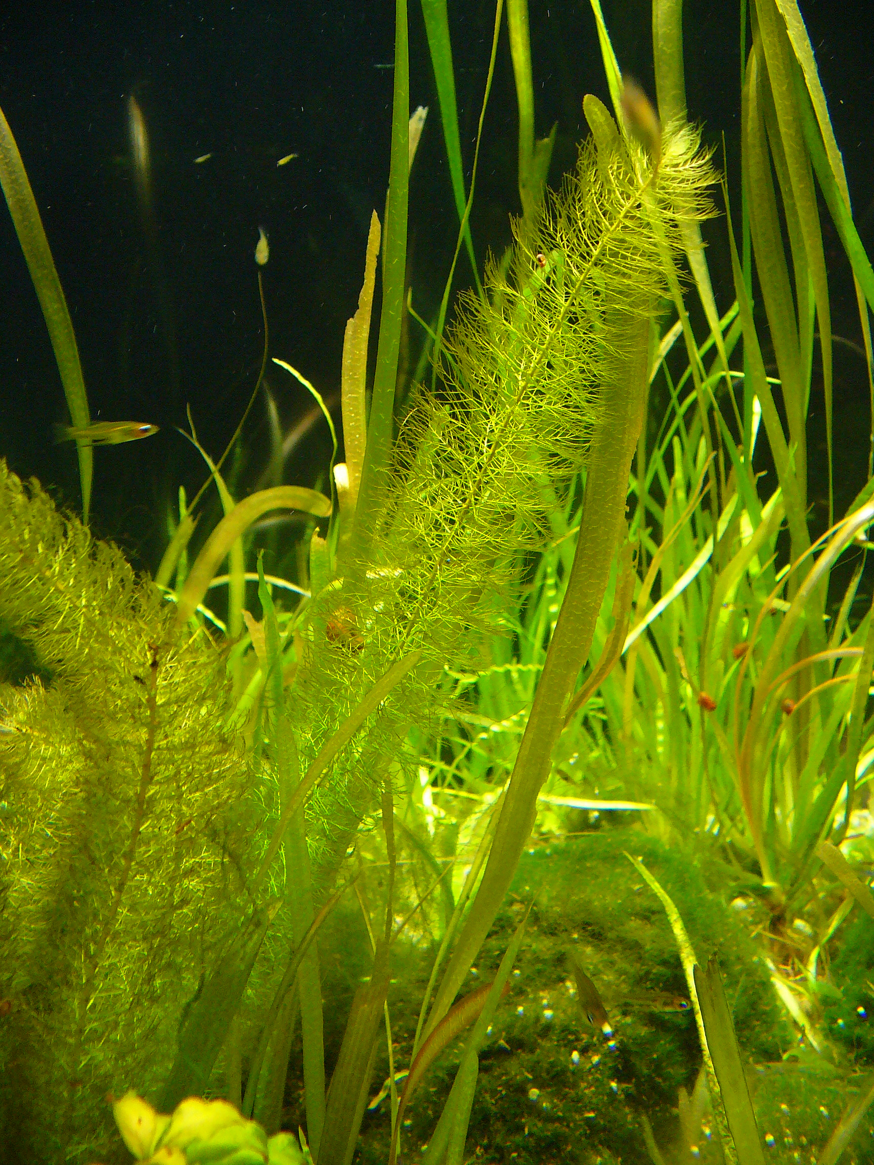 Myriophyllum hippuroides, Haloragaceae, western water milfoil; Botanic Garden Universiy Tübingen, Germany.